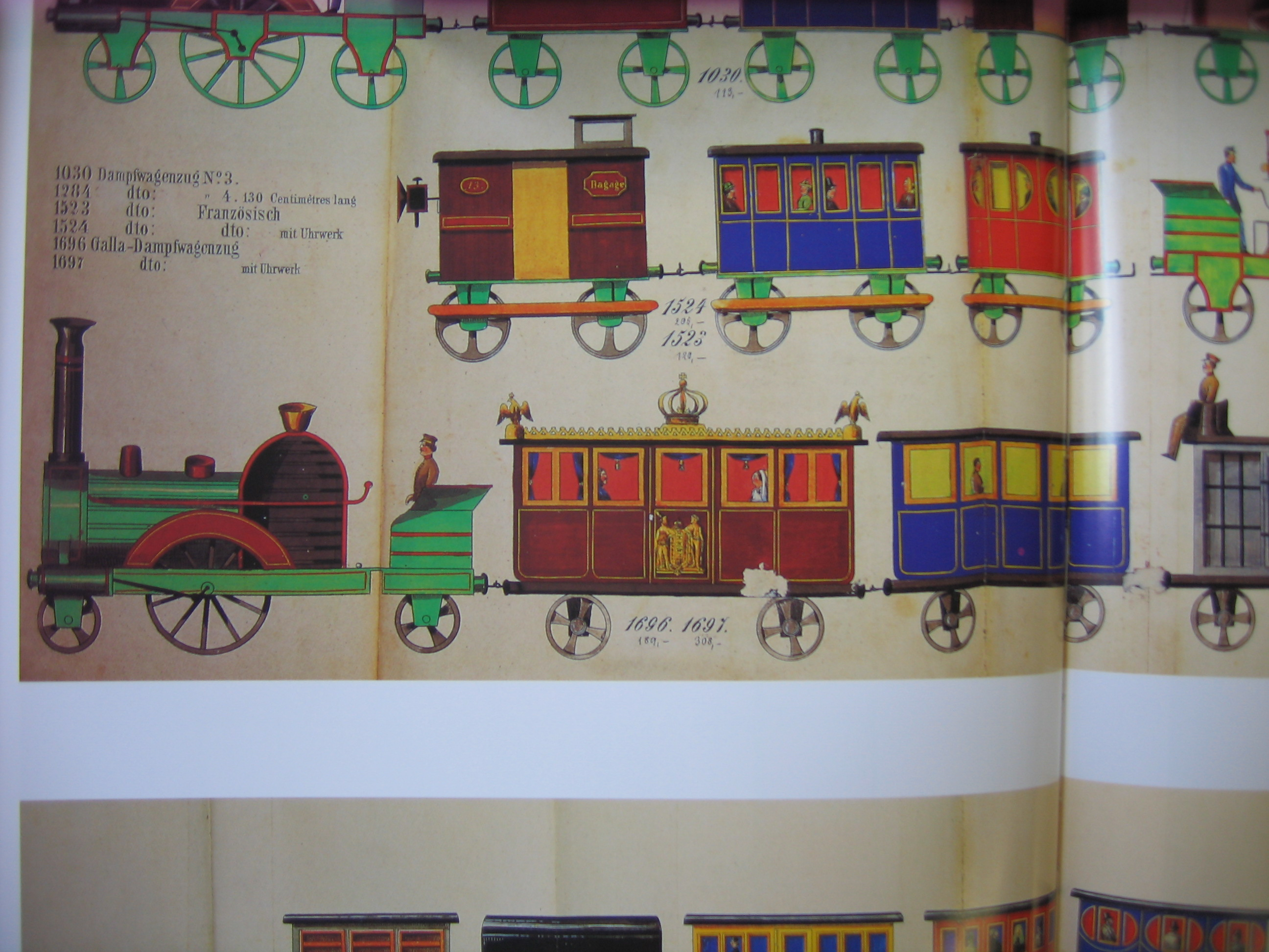 Drawing of a toy train, including an imperial saloon coach of the Emperor of France Napoleon III